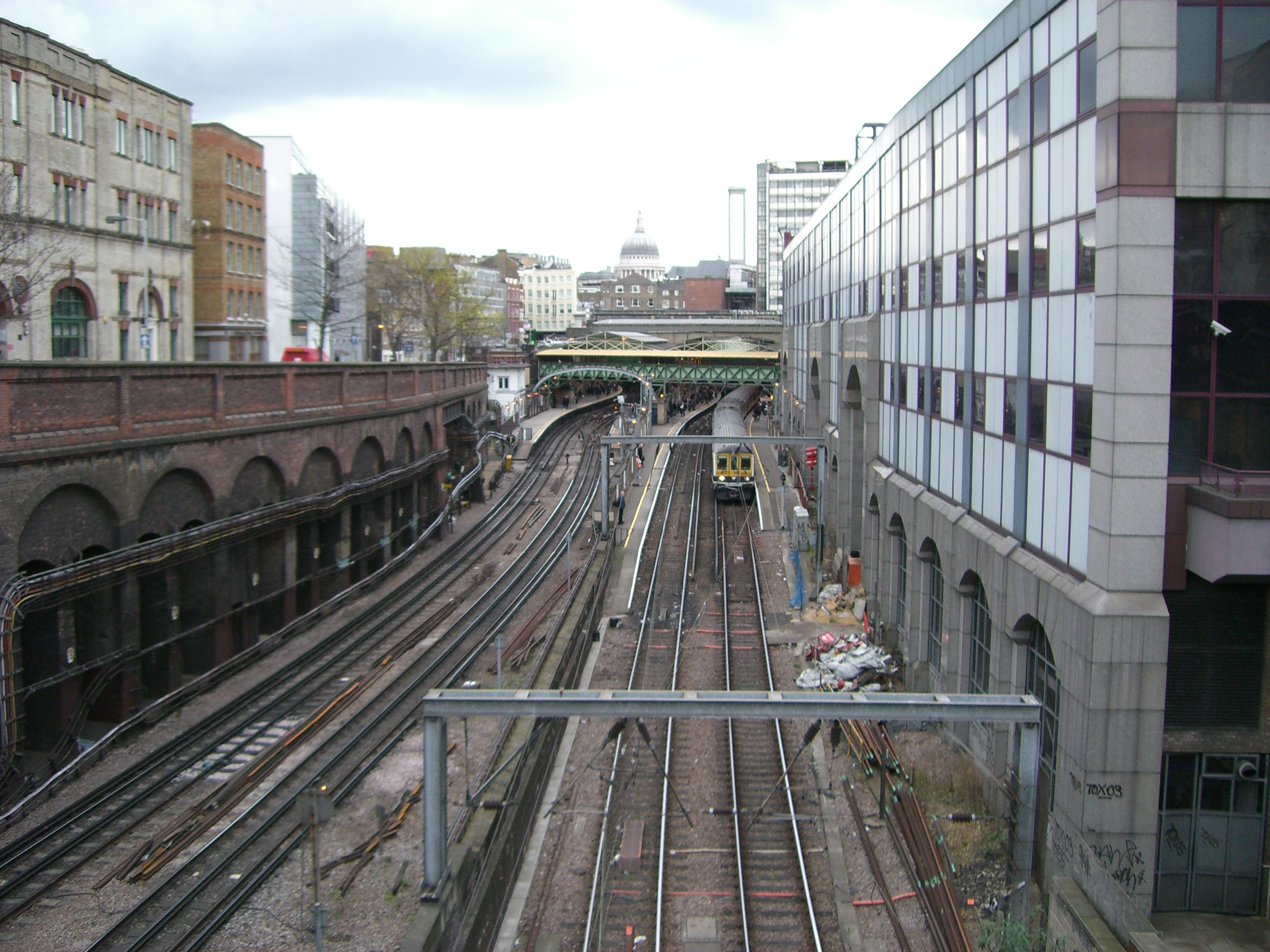 North end of Farringdon station. St Paul's Cathedral can be seen in the background.